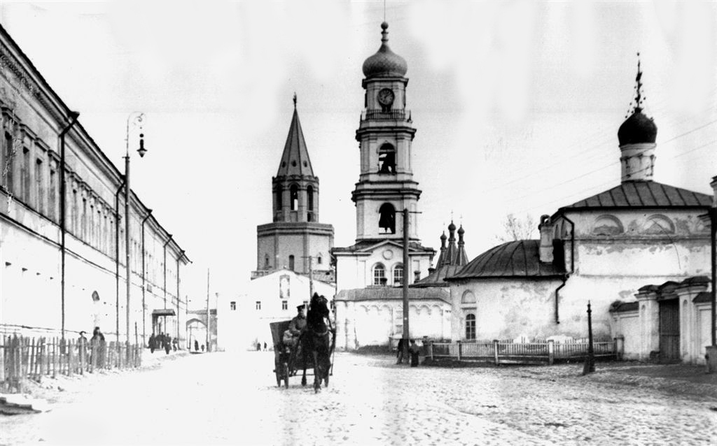 Saviour-Transfiguration monastery in Kazan Kremlin. View from the Kremlin’s main street/